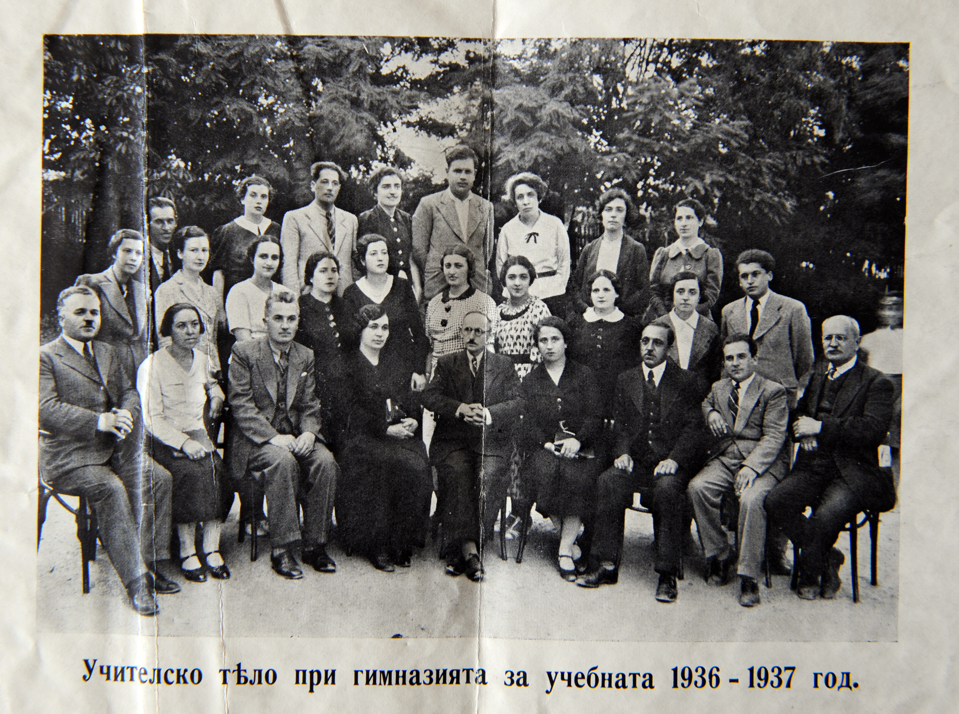 Lom High School 1936 - 1937